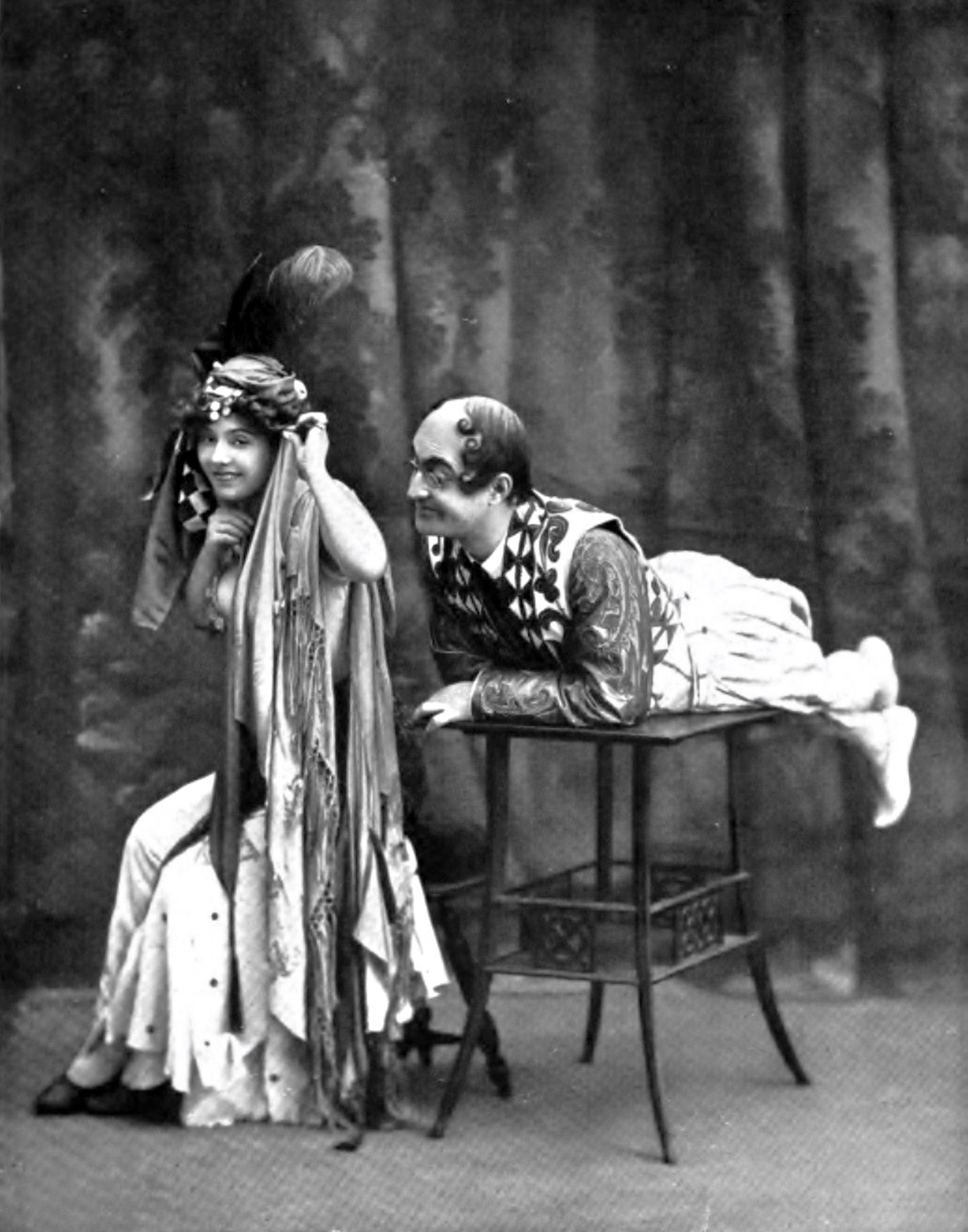 Amélie Diéterle is a French actress born in Strasbourg on February 20, 1871 and died in Cannes on January 20, 1941. She was legitimated in Paris in 1892 by Captain Louis Laurent, Knight of the Legion of Honor. Amélie Diéterle married in Vallauris on June 16th, 1930 with André Simon (1877-1965). Amélie Diéterle plays mainly at the Théâtre des Variétés in Paris during the Belle Époque. Amélie Diéterle plays the role of Fathmé in the theatre play, Le Paradis de Mahomet, of Henri Blondeau and Robert Planquette at the Théâtre des Variétés in 1906. She plays at the side of Max Dearly.